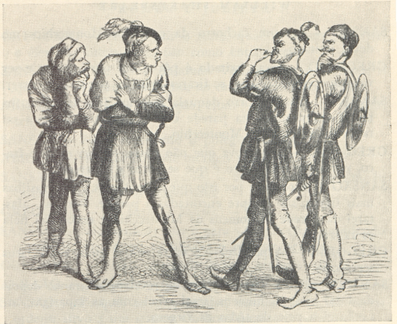 Romeo and Juliet,Act I- Scene_1